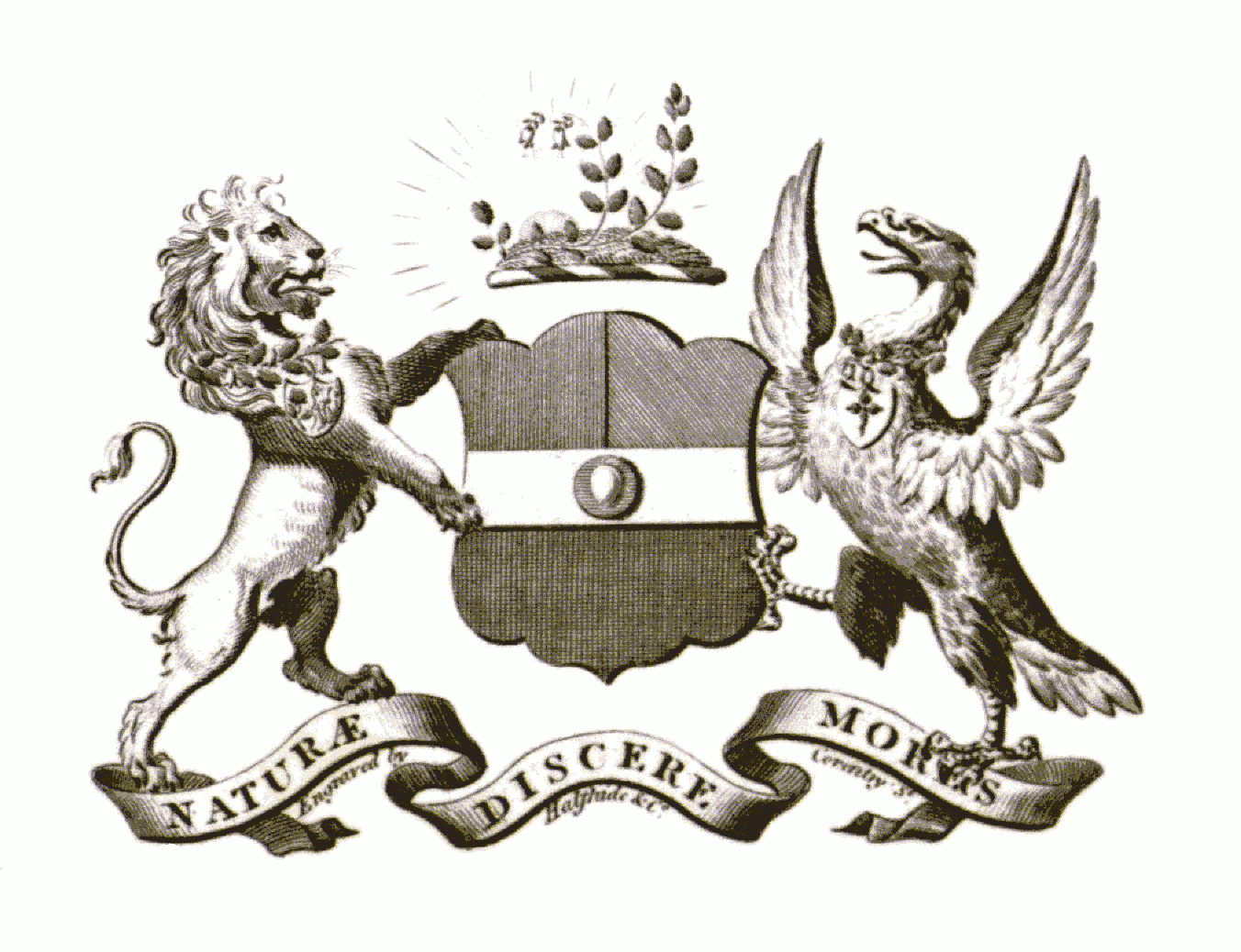 This is the coat of arms of the Linnean Society of London, as it appeared on the title page of Transactions of the Linnean Society of London 10 (1811).